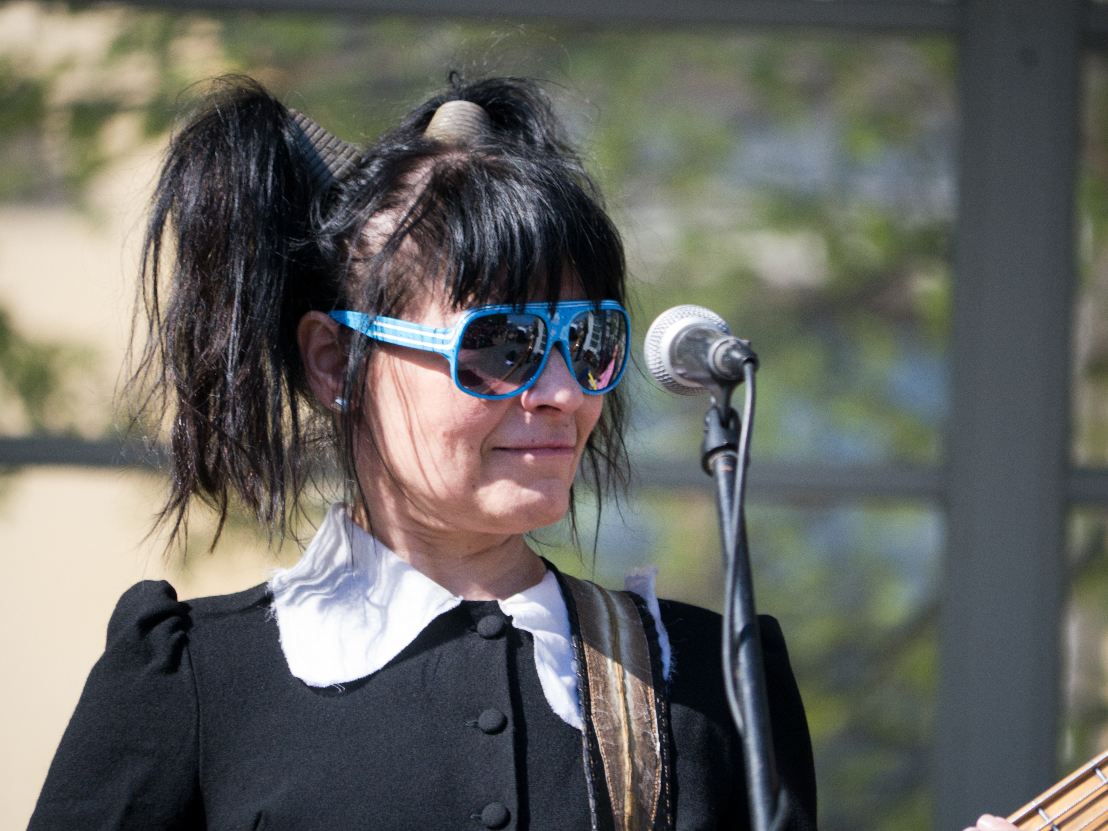 Aija Puurtinen